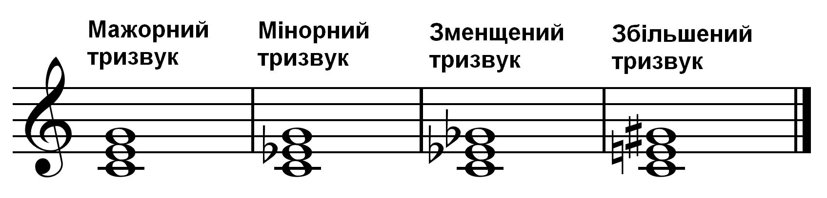 Description of triads